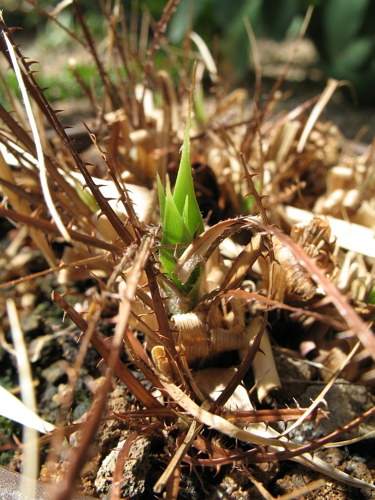 Pitcairnia piepenbringii in cultivation at the Botanical Garden of Heidelberg, Germany.